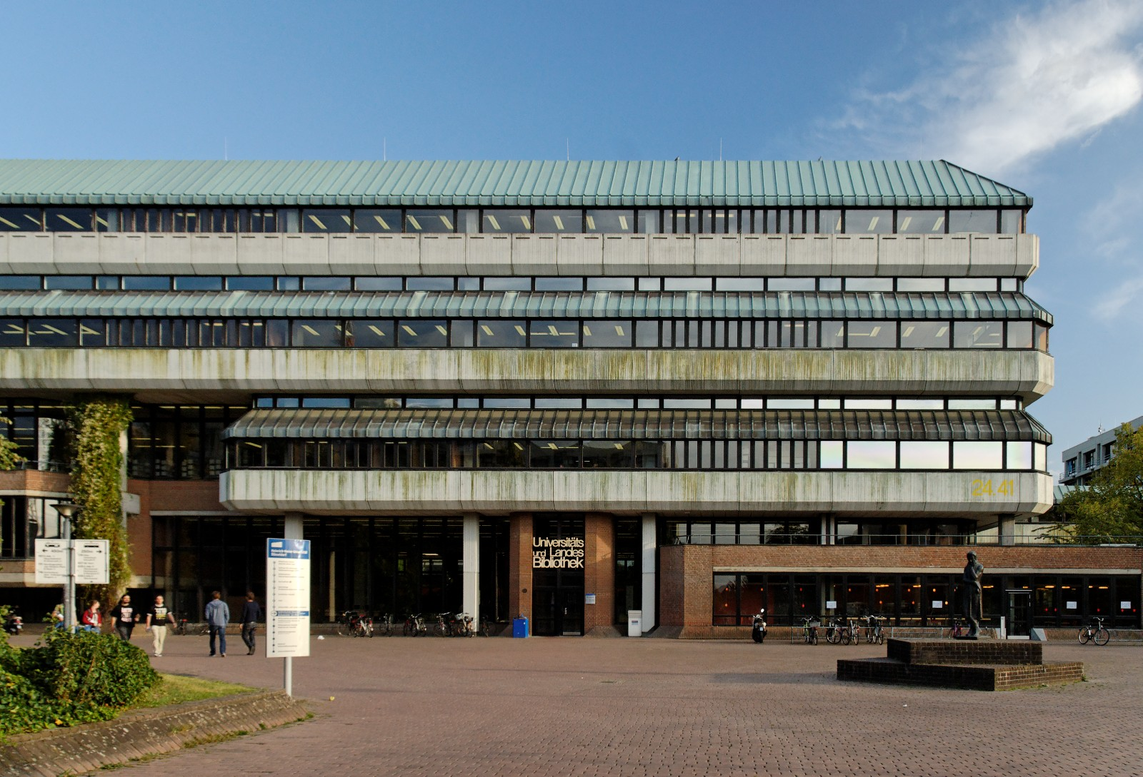 Universitäts- und Landesbibliothek Düsseldorf in Düsseldorf-Bilk, Germany